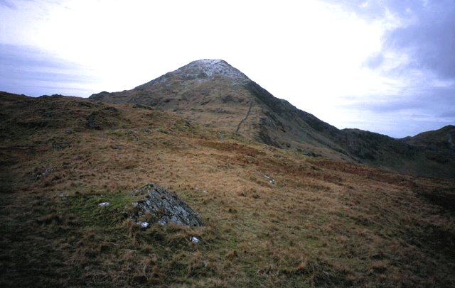 East ridge of Yr Aran, Snowdonia National Park, Wales.